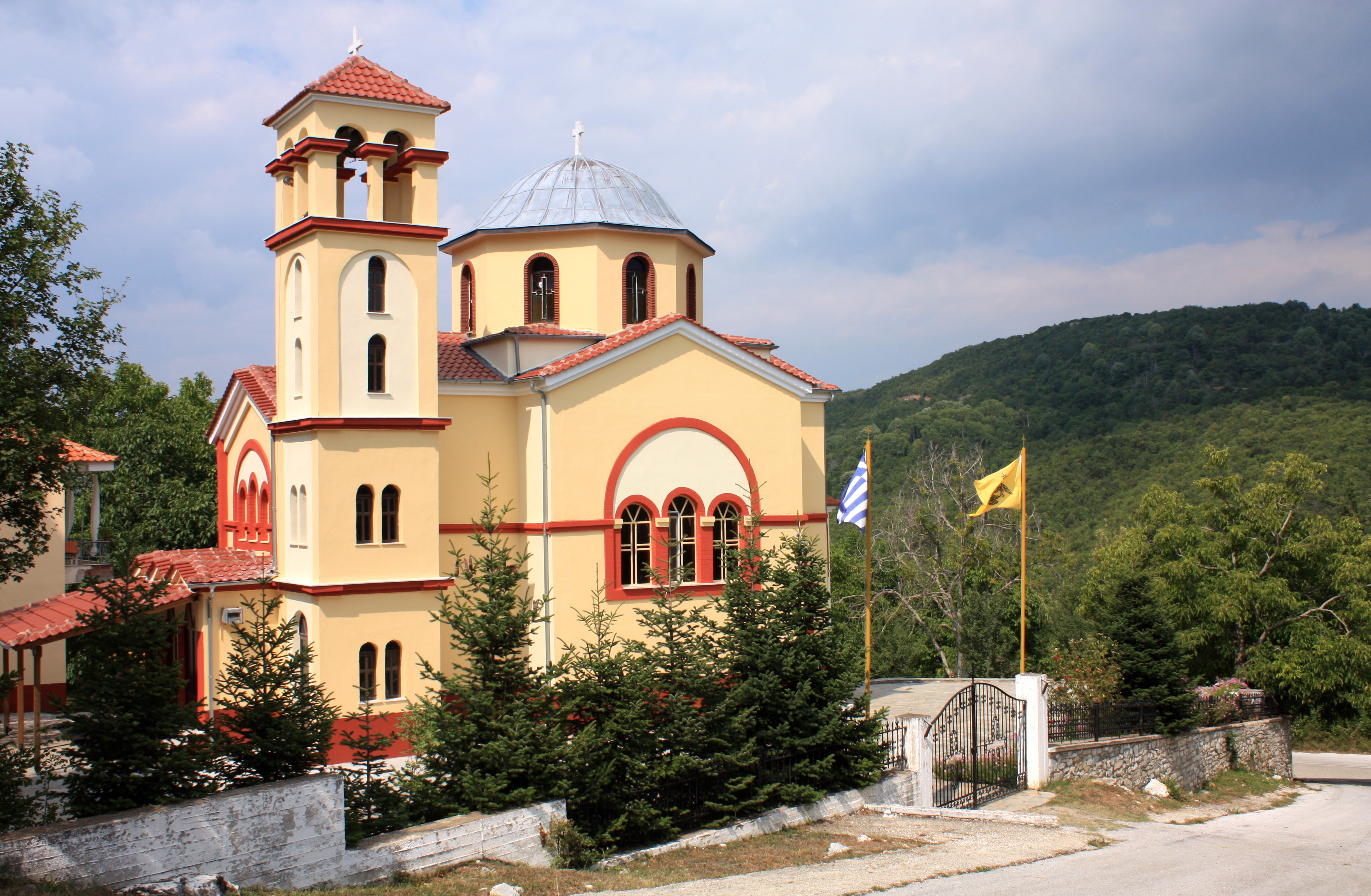 Church in the village Koryfes, Kavala, Greece